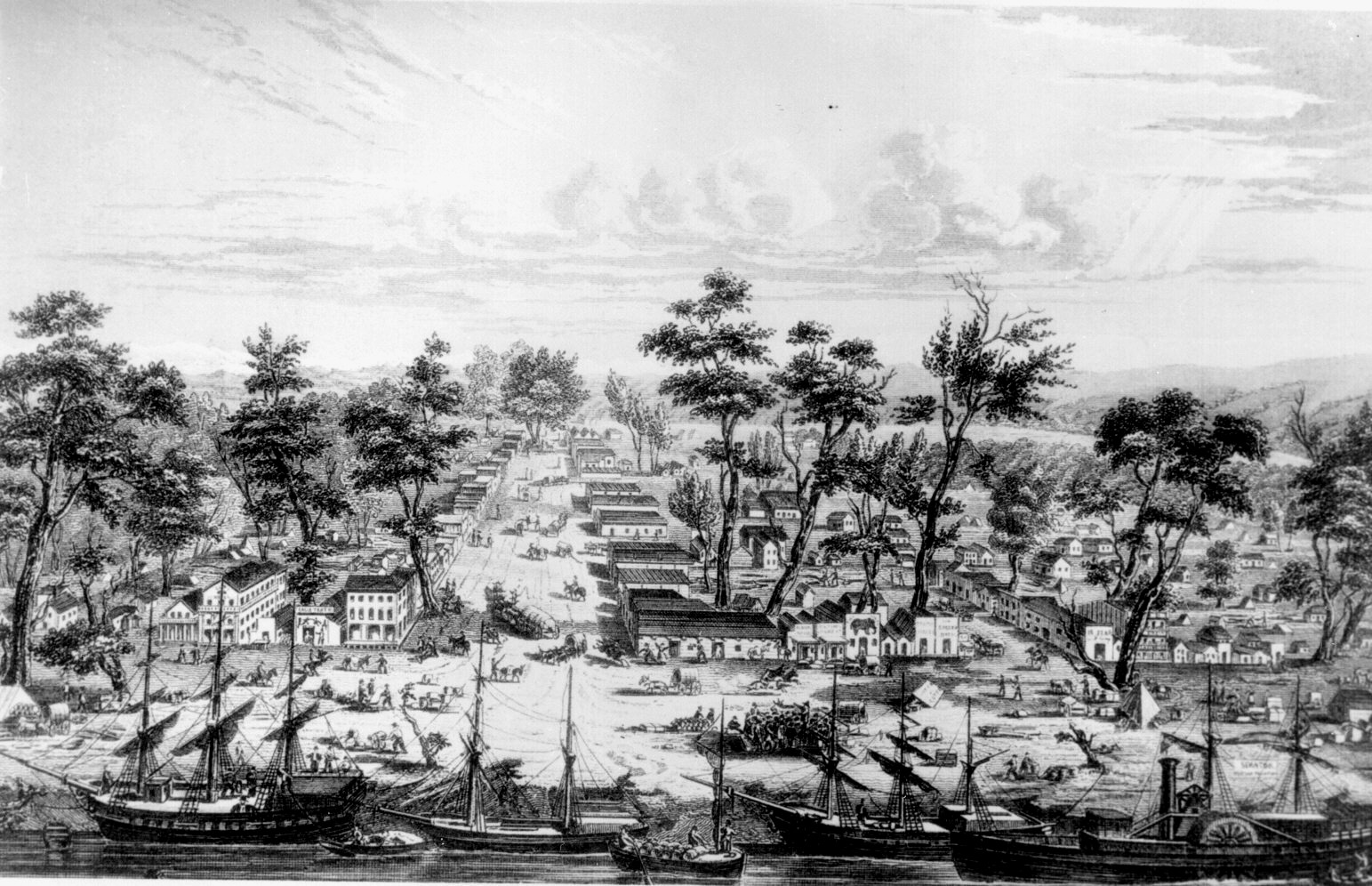 "Sacramento-City in California~" Engraving frnm The United States Illustrated by Charles A. Dana (New York, 1855). From the Foot of J. Street. Showing I, J & K St with the Sierra Nevada in the distance. (see :Image:Sacramento california 1849.jpg). source